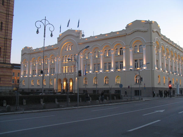 Assembly of the City, Banja Luka, Republika Srpska (BiH)